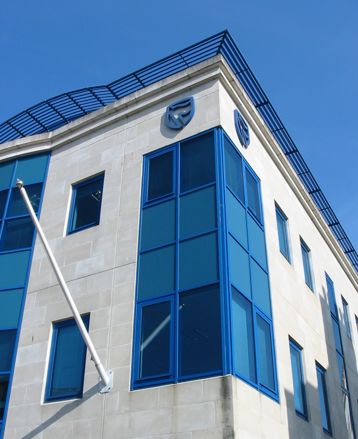 Jersey